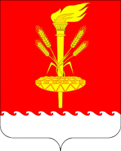 Coat of arms of Novoukrainskoye, Krasnodar Krai, Russia.